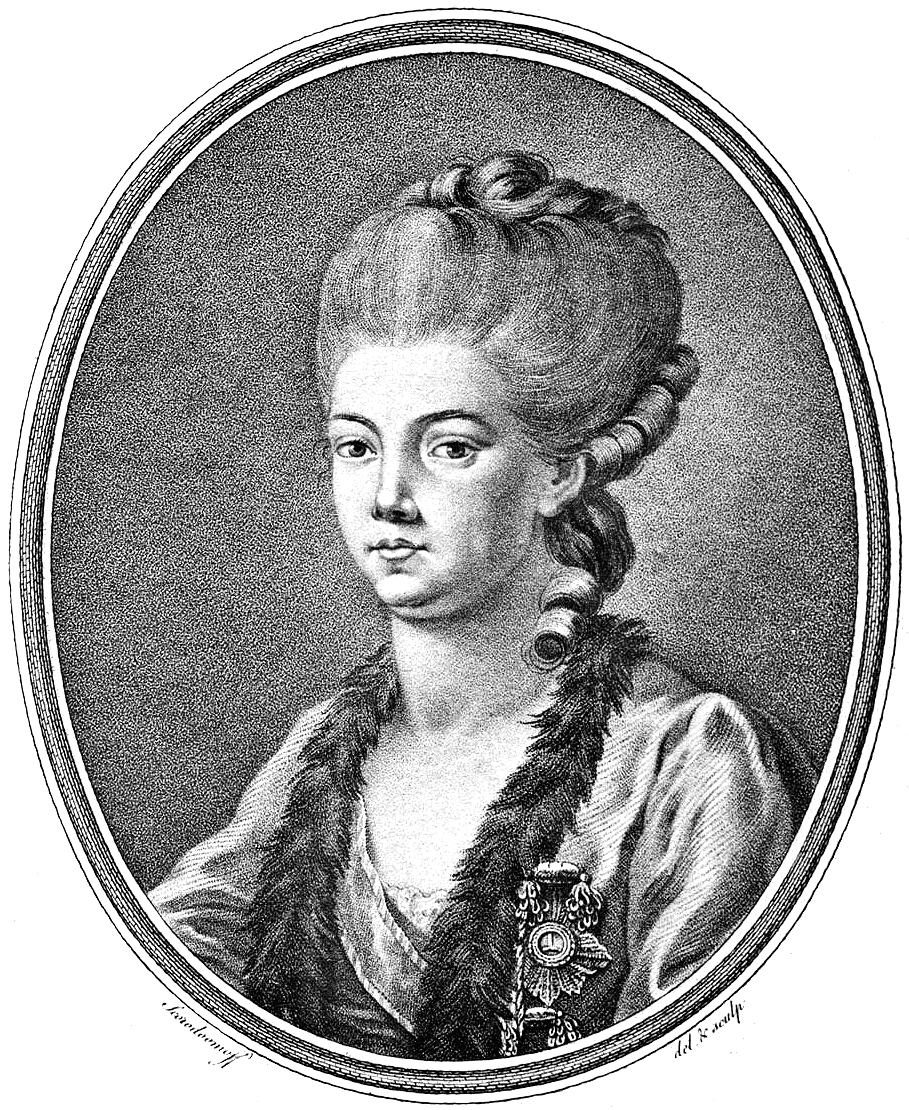 Engraving of Yekaterina Romanovna Vorontsova-Dashkova.